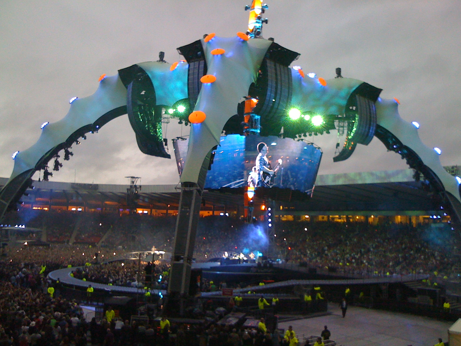 U2 play a concert at Hampden Park, Glasgow in August 2009.